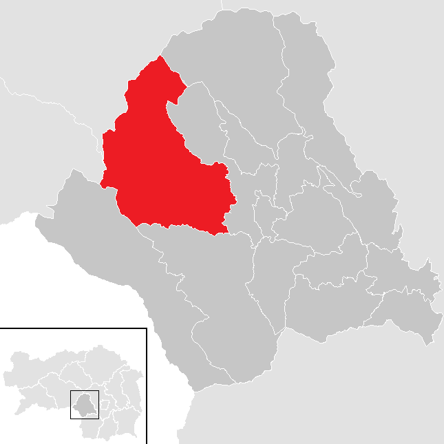 district Voitsberg